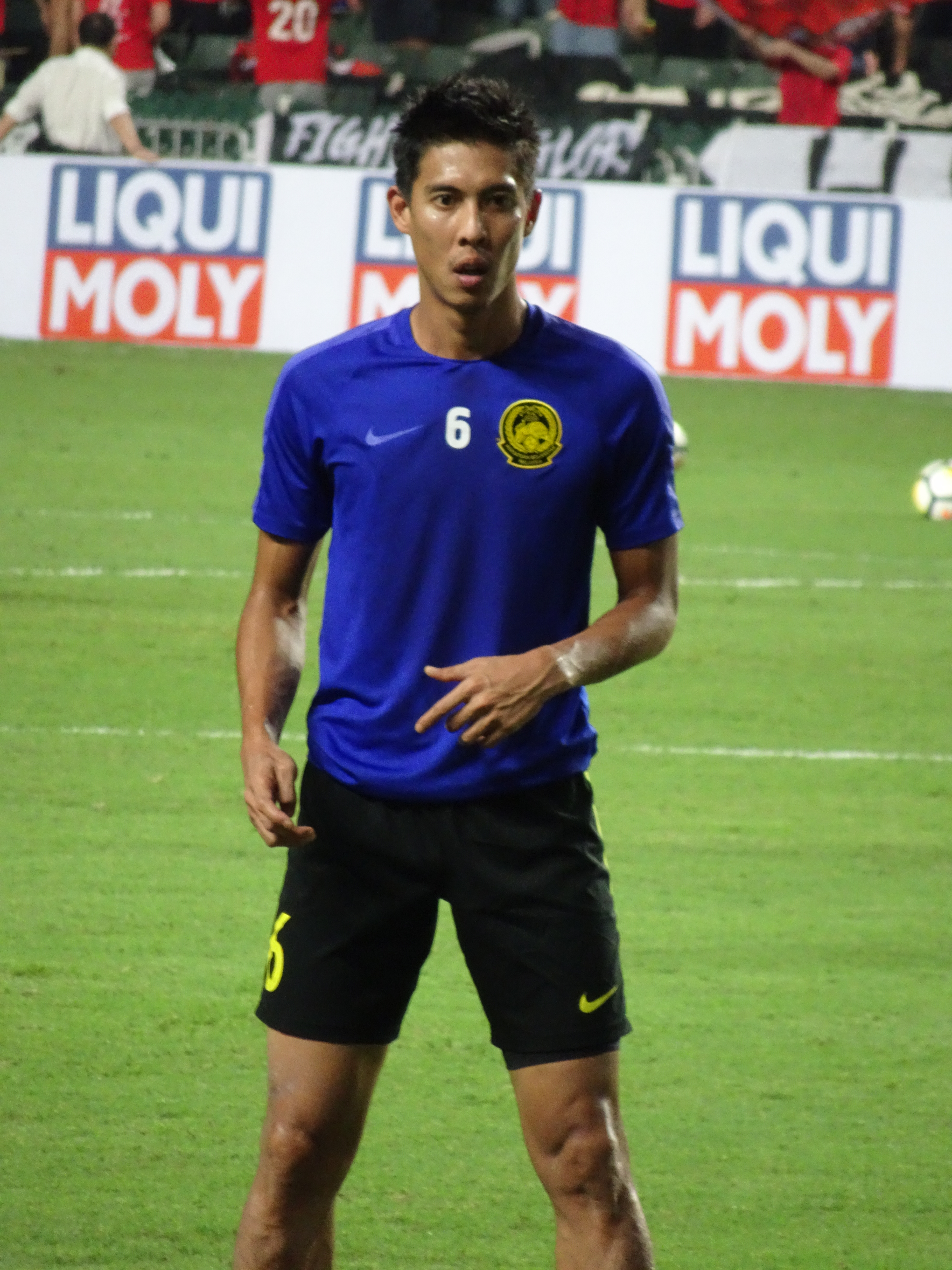 Amirul Hadi Zainal (10 Oct 2017, Asian Cup Qualifier, Hong Kong vs Malaysia, Hong Kong Stadium)